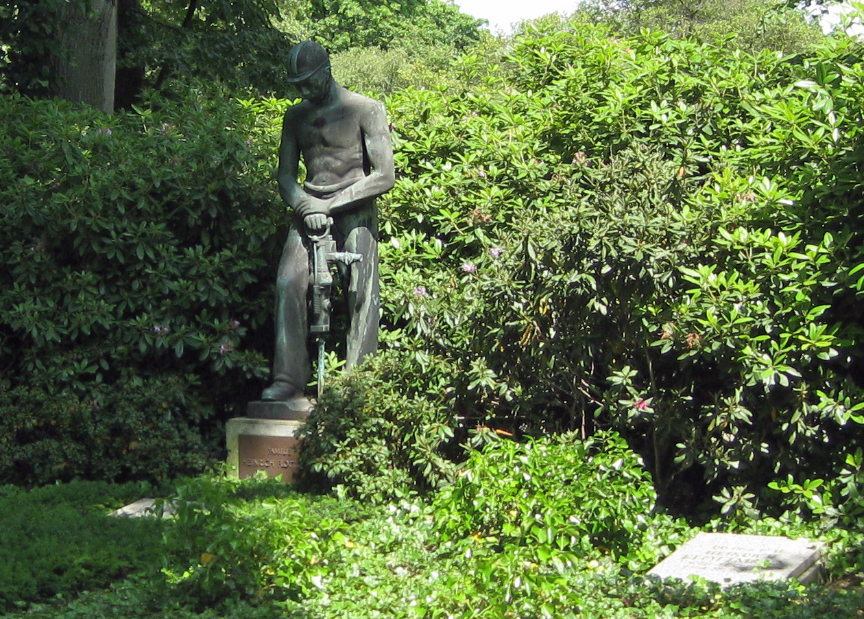 Flottmann family tomb on the south cemetery of Herne